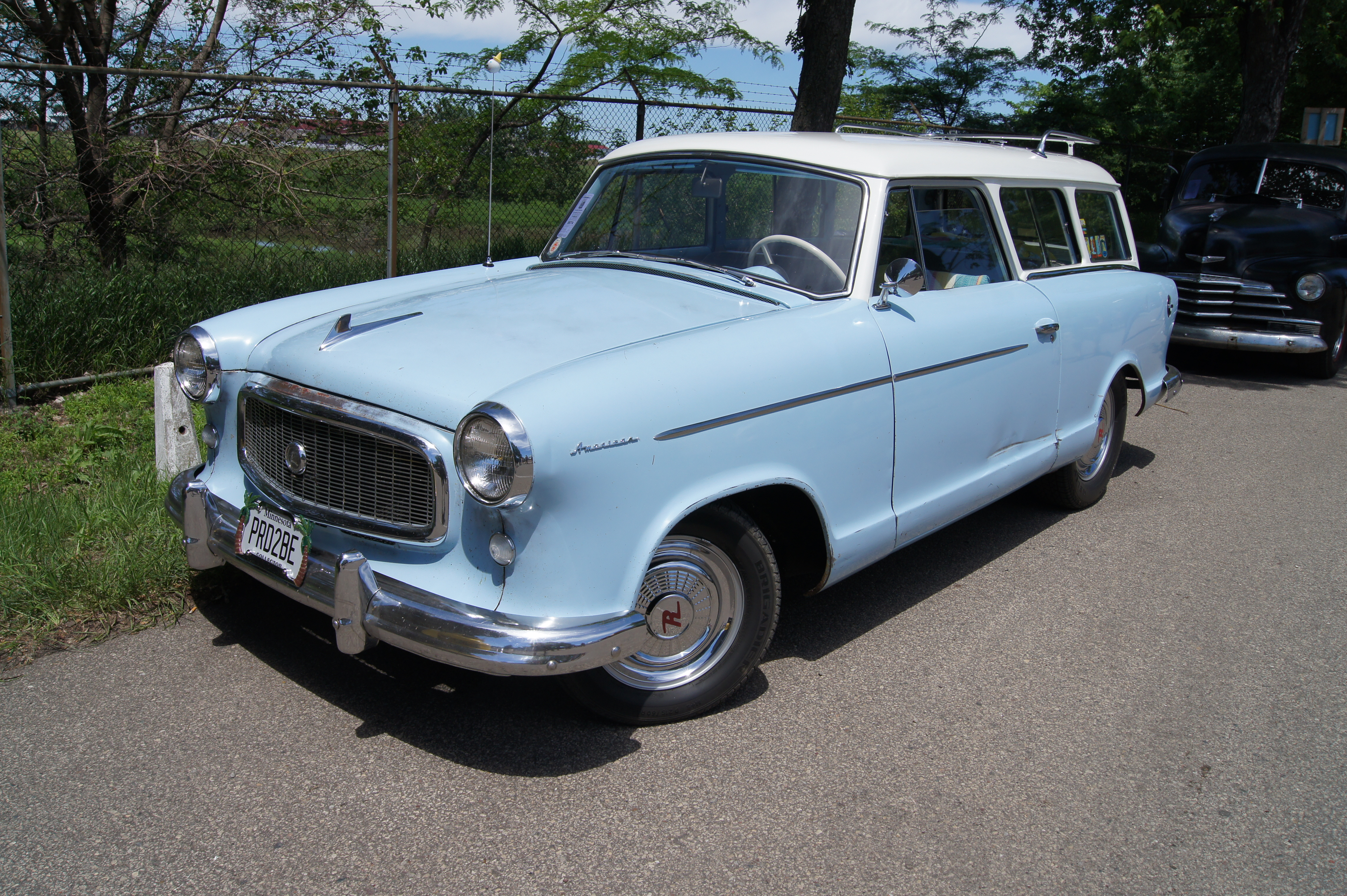 MSRA “BACK TO THE 50′s” 41st Annual June 20-22, 2014 State Fairgrounds St. Paul Minnesota More Car Pictures